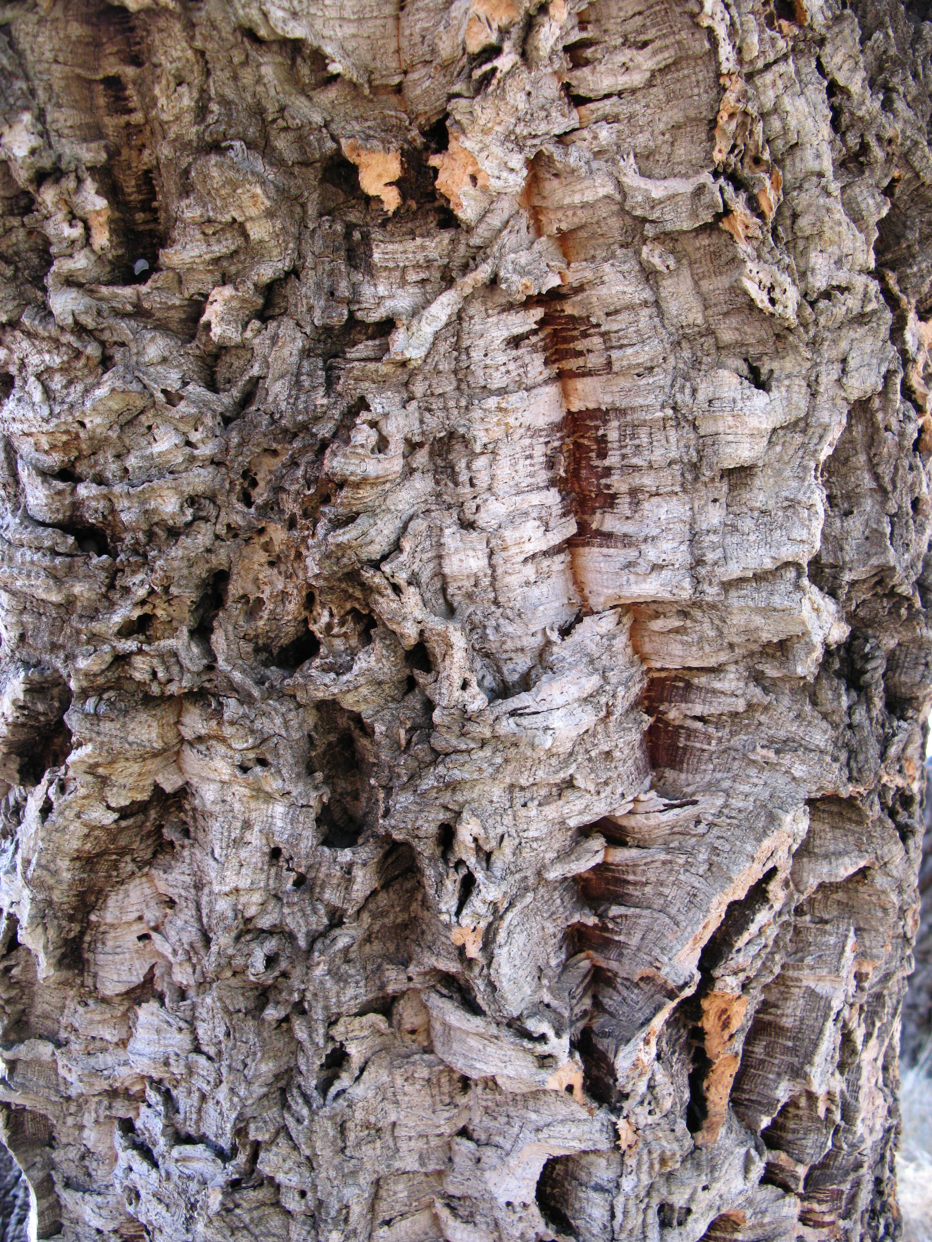 Cork oak in Israel - Bark